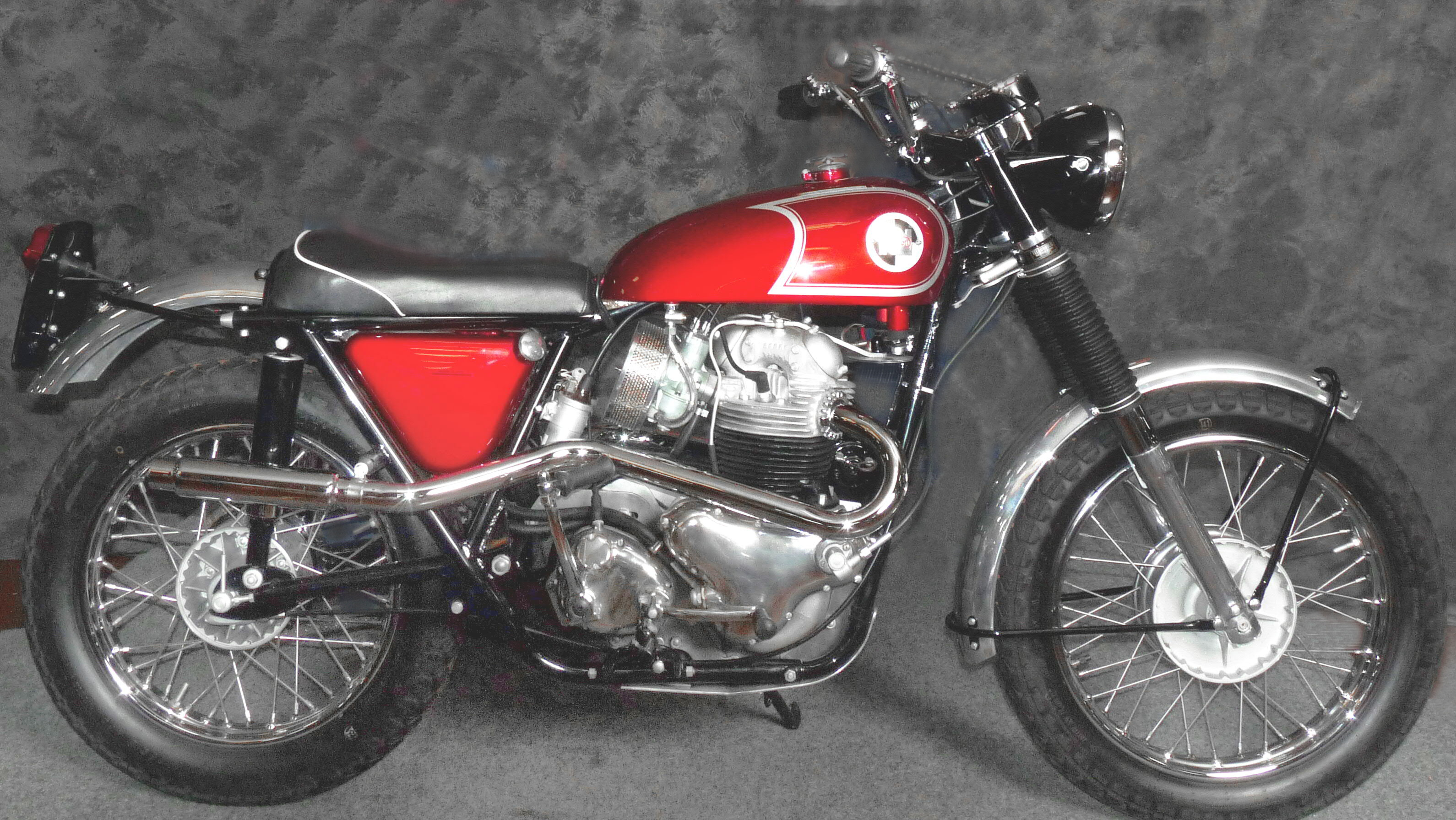 Norton Matchless P11, show winner owned by Don Harrell at San Jose Fairground, California in 2009